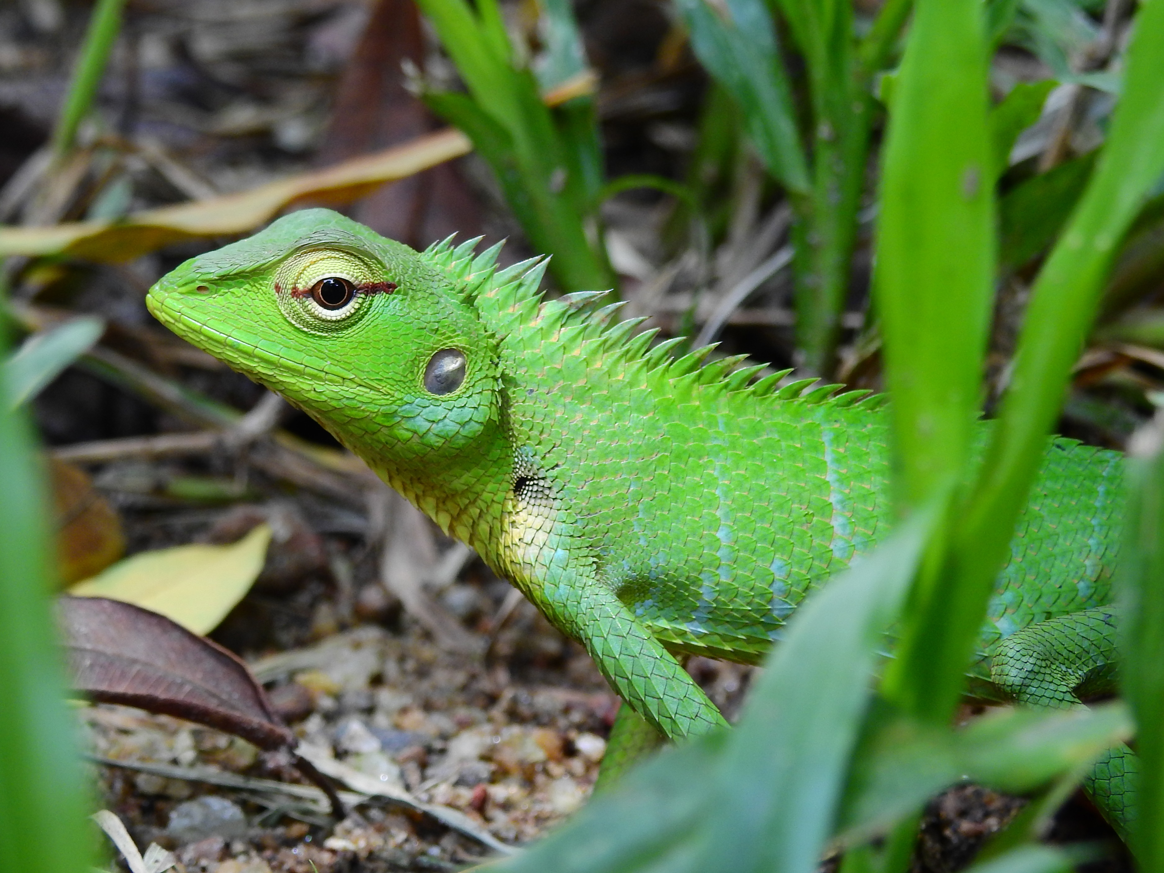 Common green forest lizard (Calotes calotes), in Sri Lanka.